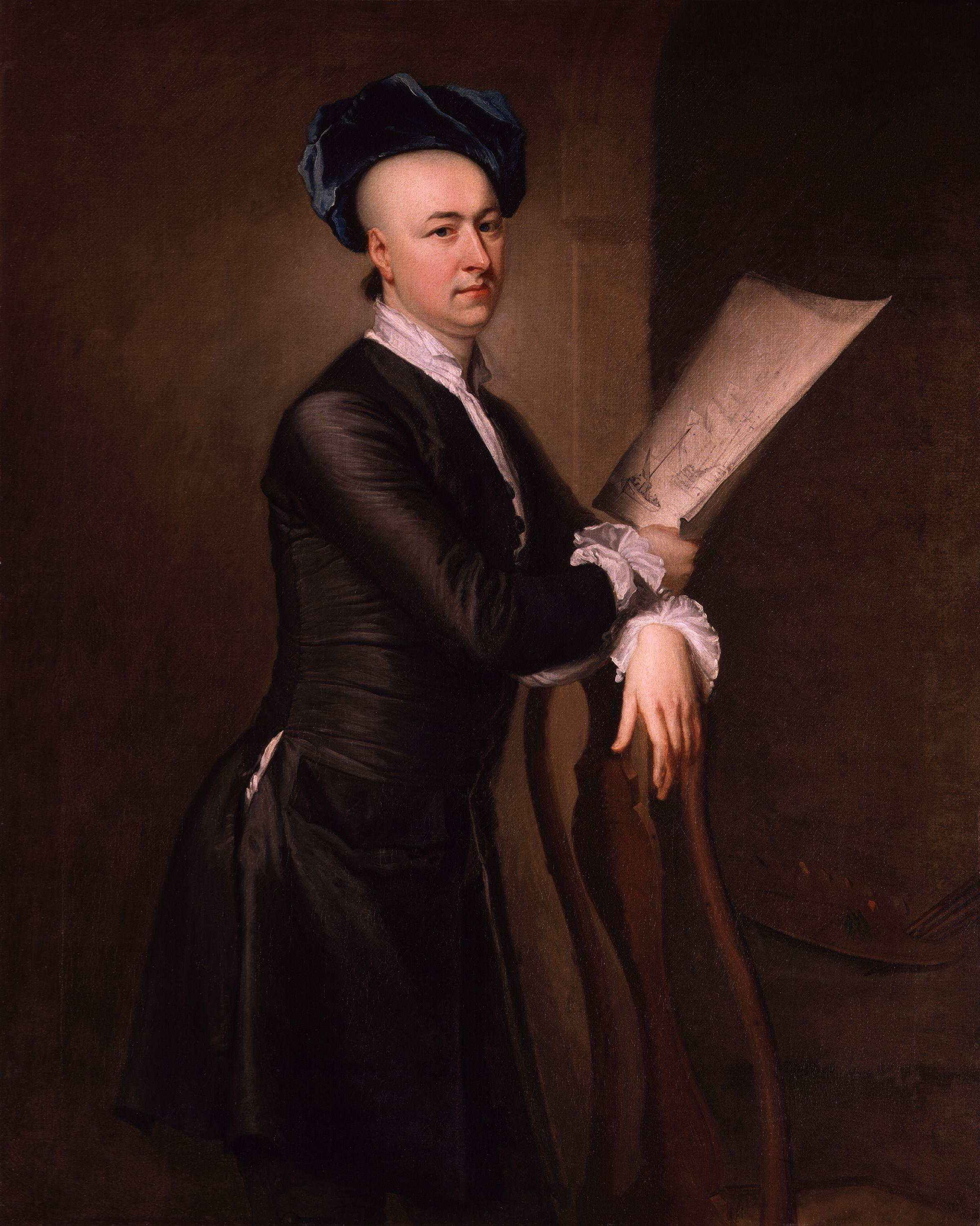 Samuel Scott, by Thomas Hudson (died 1779). All images in this batch have been confirmed as author died before 1939 according to the official death date listed by the NPG.